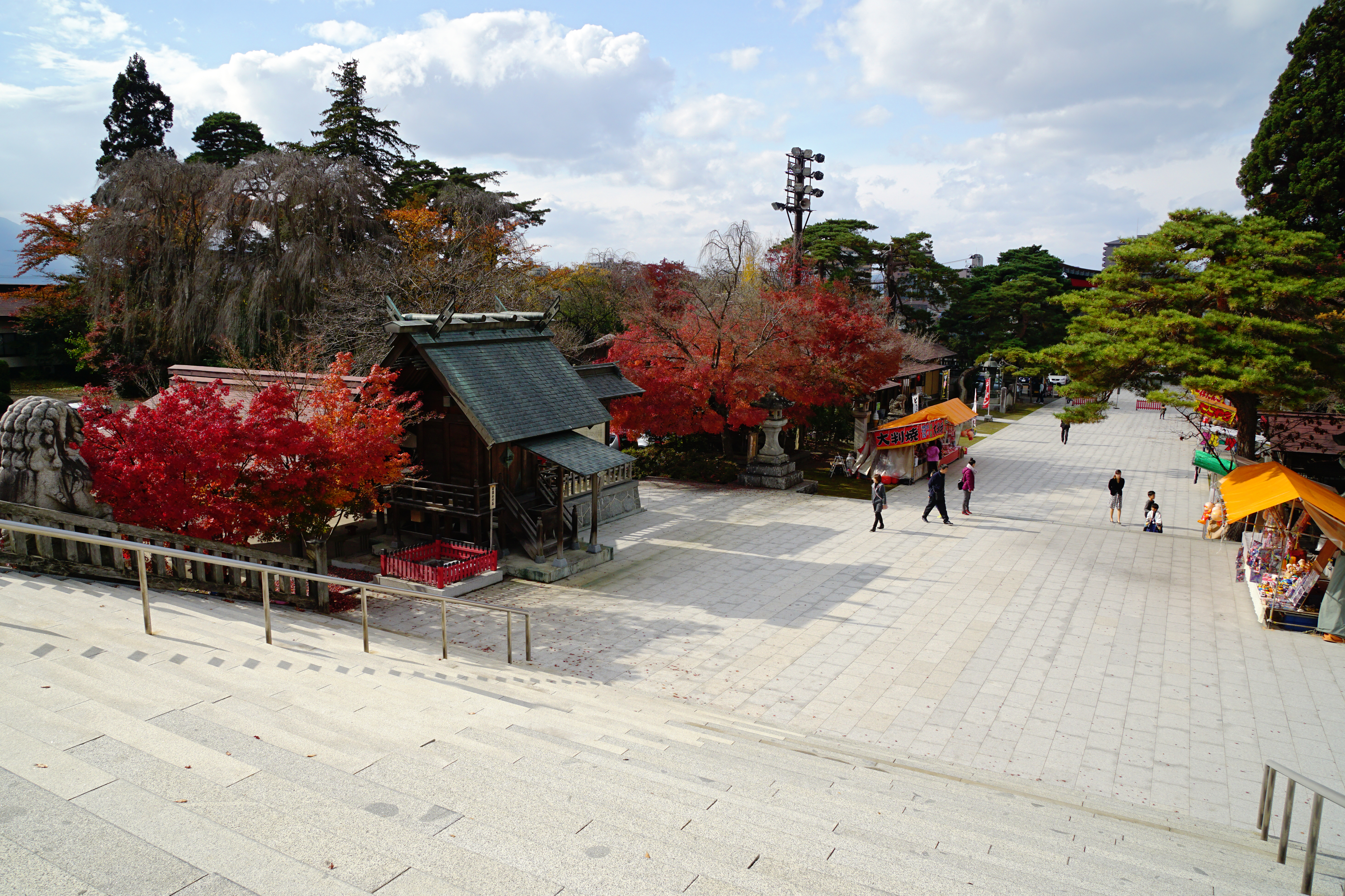 Morioka Hachimangū in Morioka, Iwate prefecture, Japan